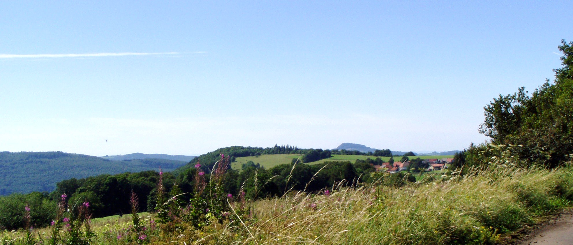 View from the „Hochrhönstraße“ (Bavaria, Germany)